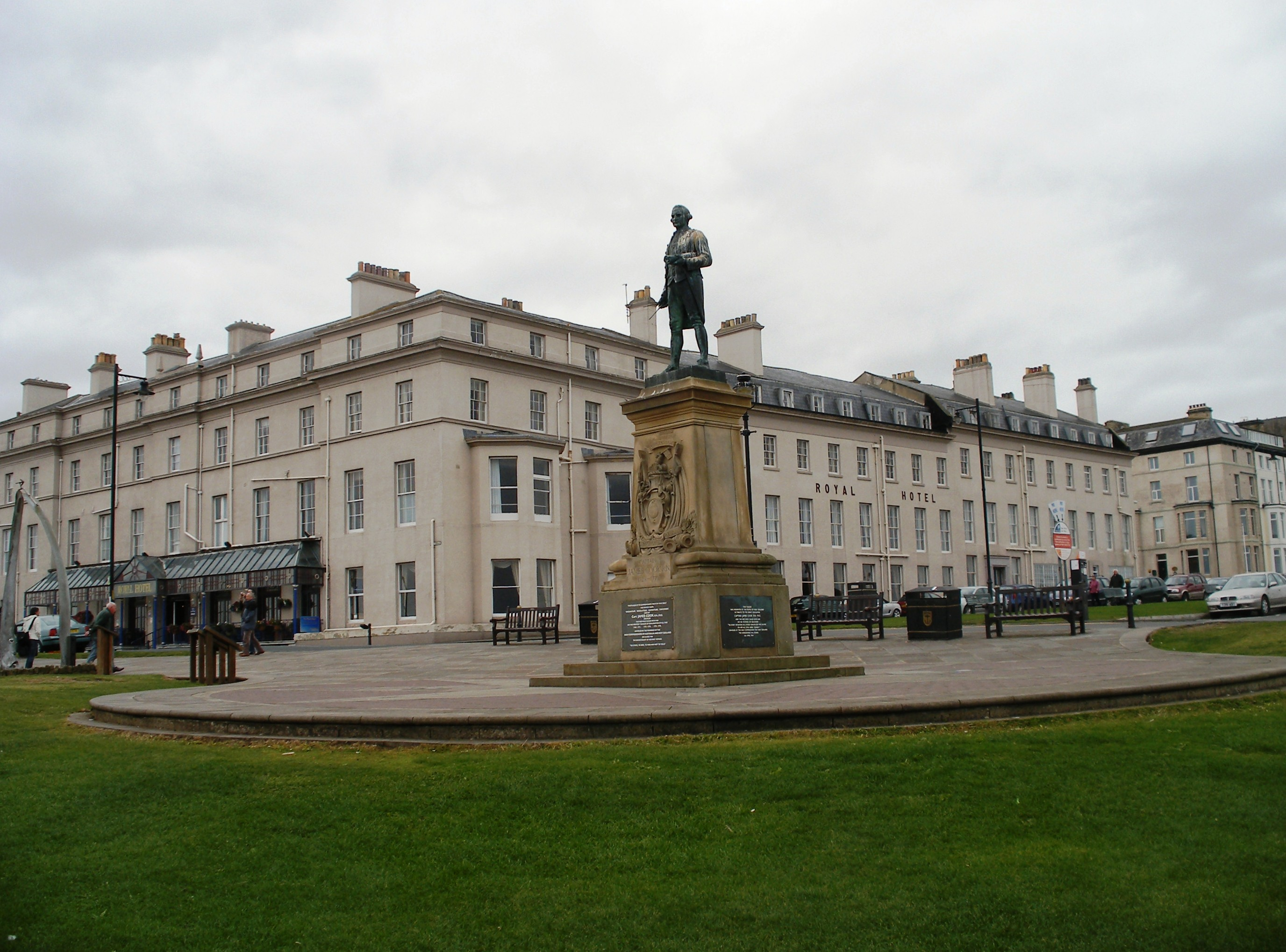 Captain Cook statue and the Royal Crescent